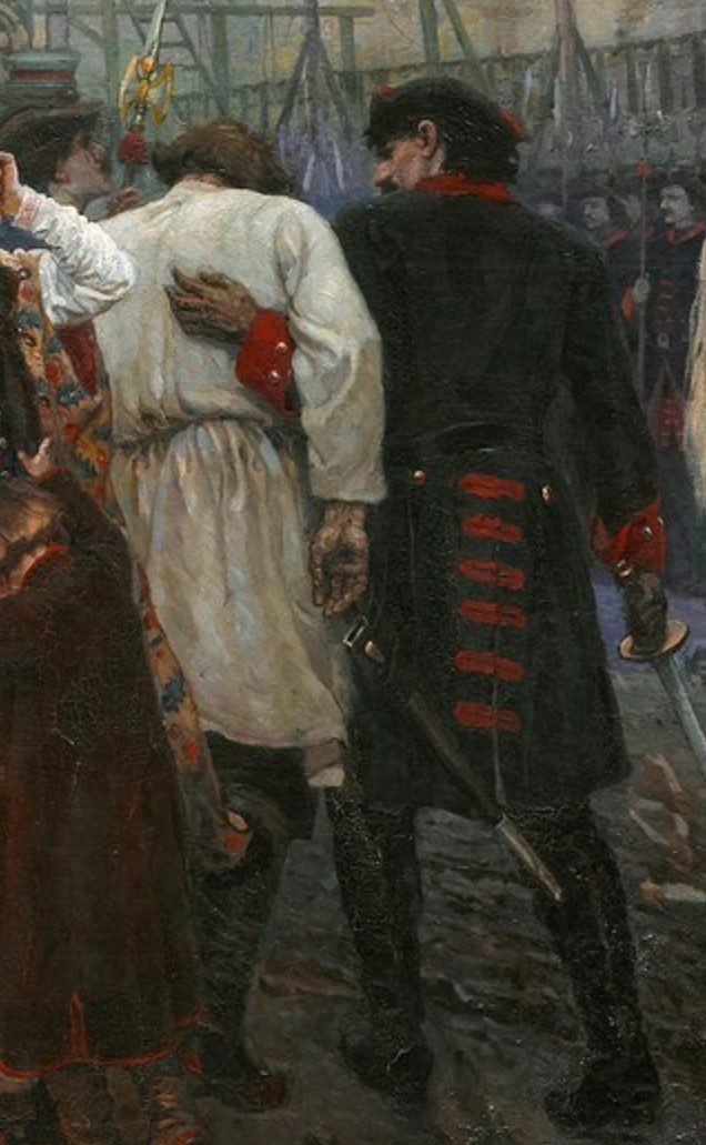 Detail of the painting "Morning of streltsy's beheading" by Vasily Surikov (1881)